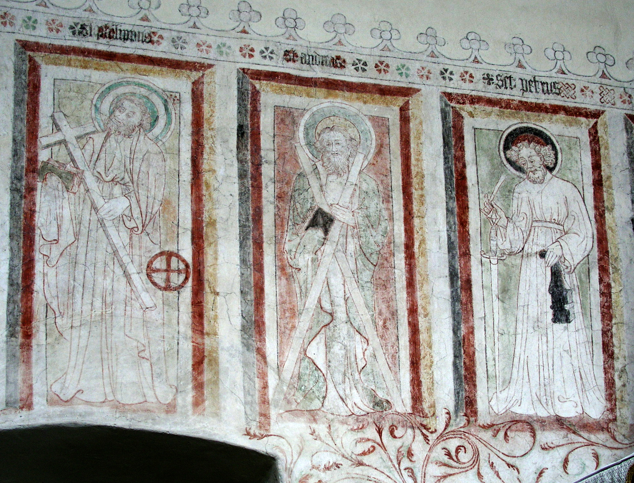 Frescoes representing Saint Philip, Saint Andrew and Saint Peter (apostles) in Othem church, Gotland, Sweden